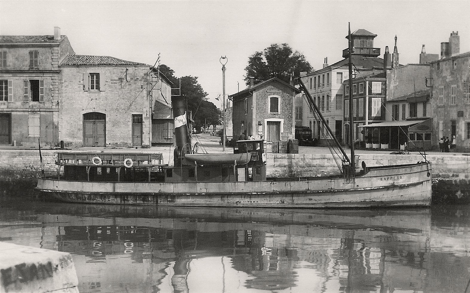 Old postcard of steamship « Express » to assure transport between la Rochelle and Île de Ré, at Saint-Martin-de-Ré.